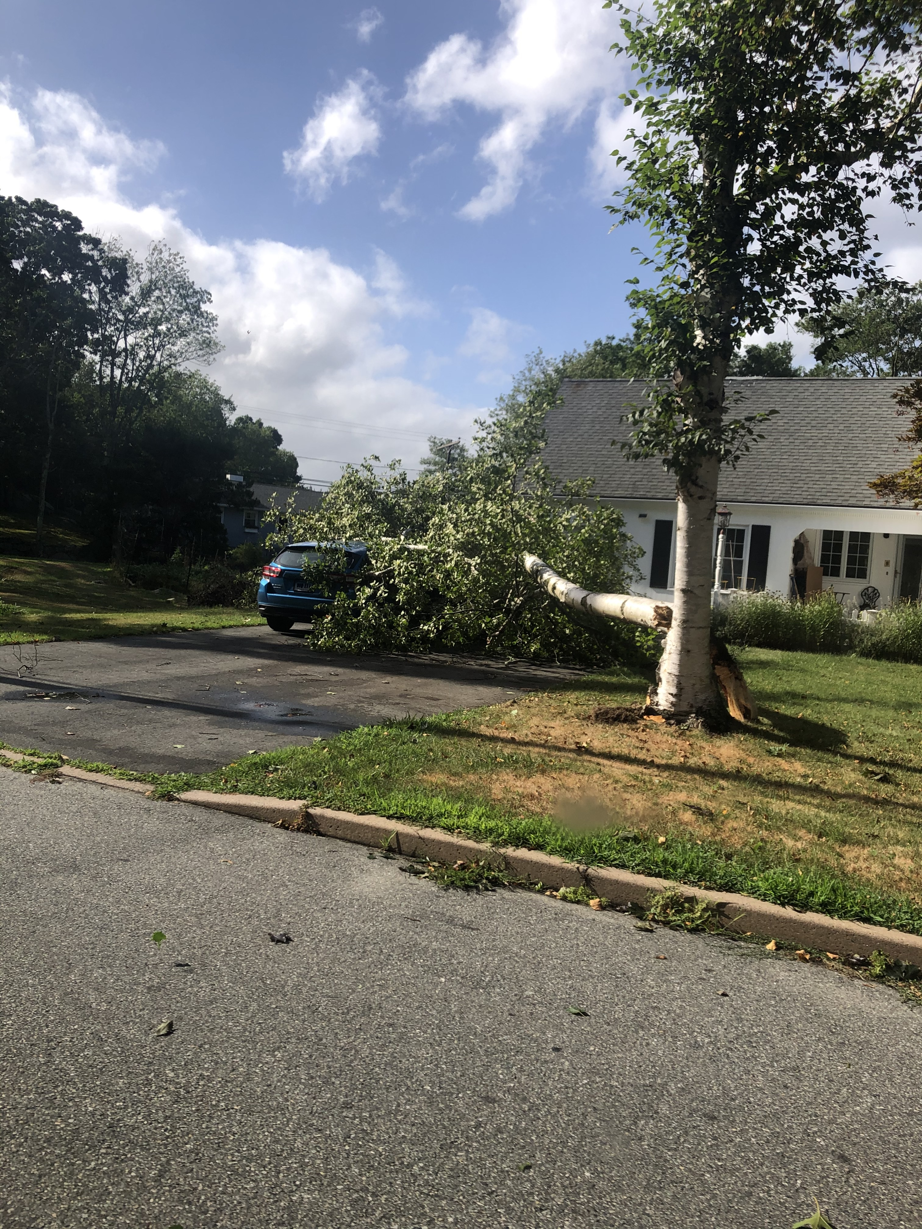 A Tree fallen on top of a vehicle in a homestead in Waterford, Connecticut. Taken by user Davidd101 during Tropical Storm Isaias on-location.